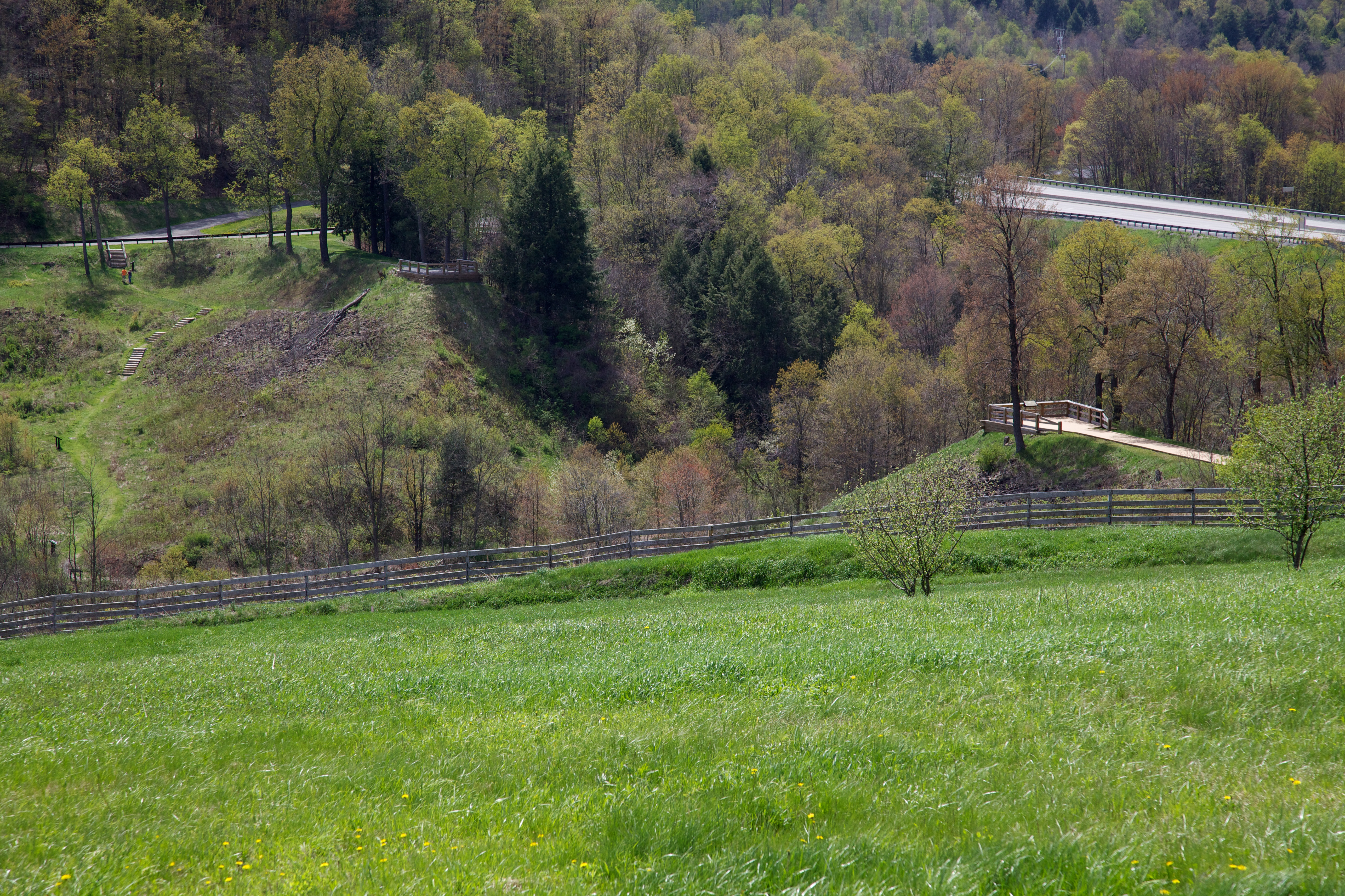 Today we travel to the actual site of the South Fork Dam which failed in 1889, causing the Johnstown Flood. You can see the two ends of the earth dam (with the walkways and vista points on either end). The large notch in the middle - now covered by trees - is the section that gave way when the dam broke. U.S. Route 219 is at upper right.